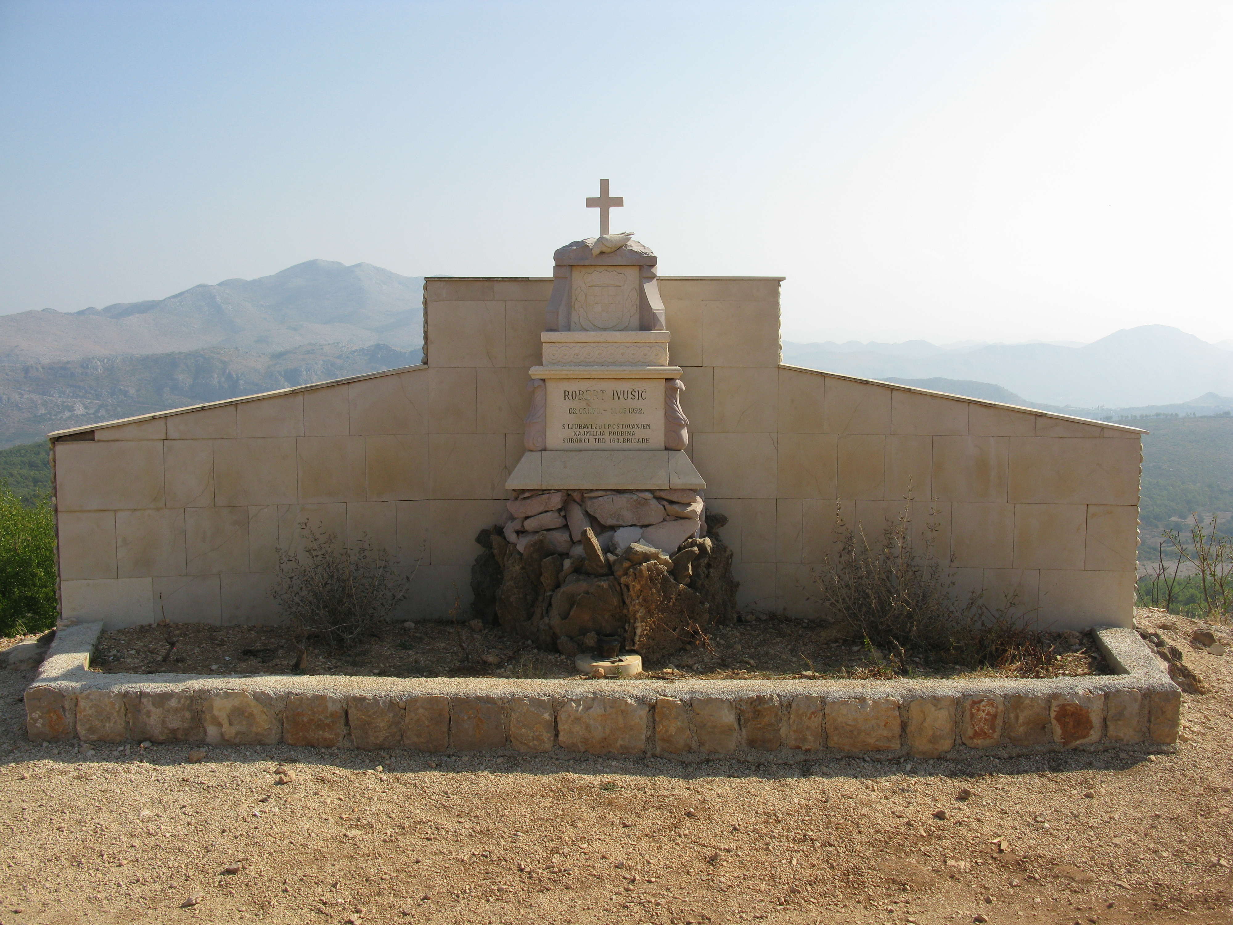 Memorial to Robert Ivušić, 163rd Brigade of the Croatian army, who was killed in action at 19 while defending Dubrovnik.